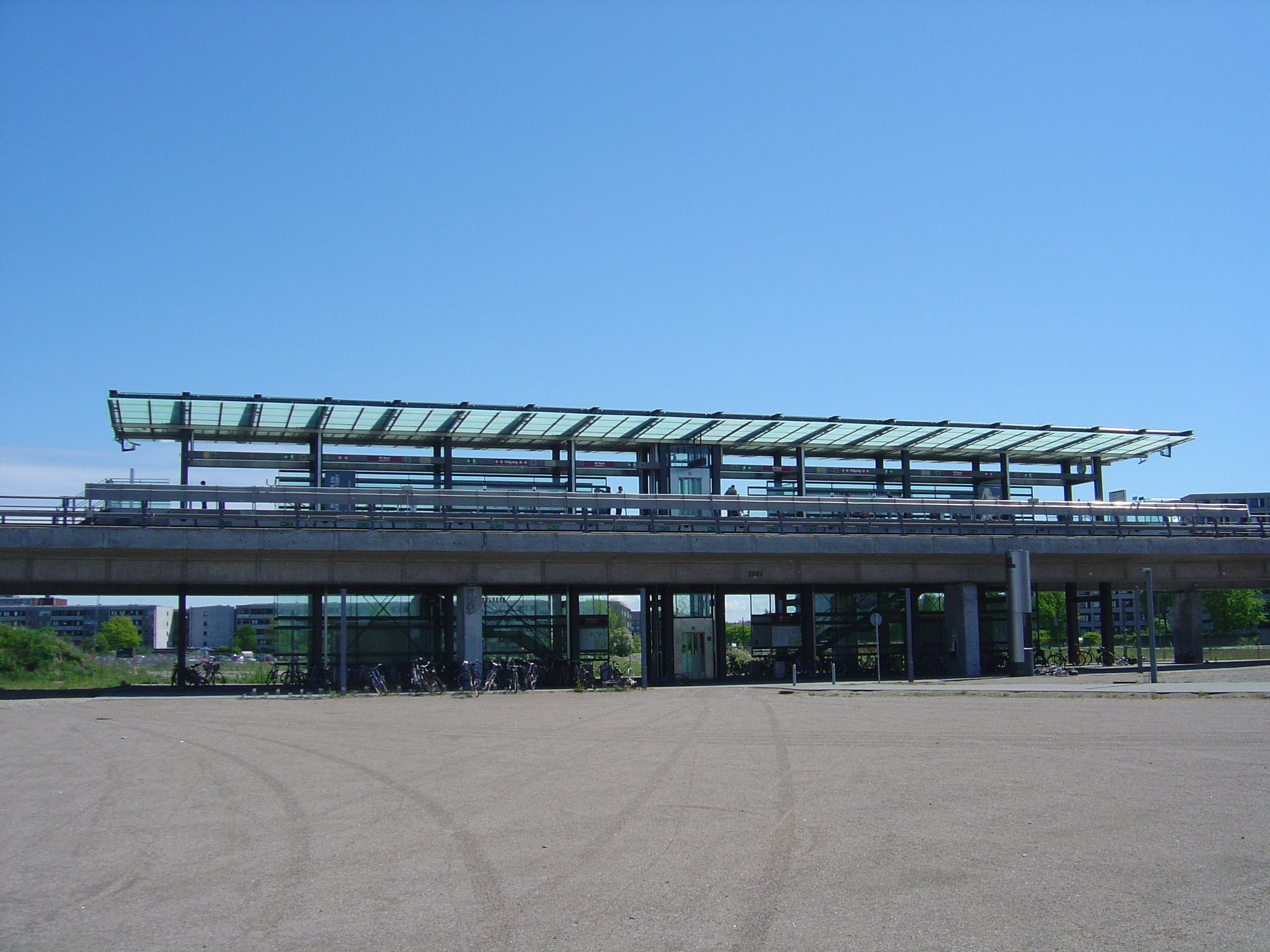 DR Byen Station (Universitet) - part of Copenhagen Metro on Amager, København. Seen from Ørestads Boulevard.